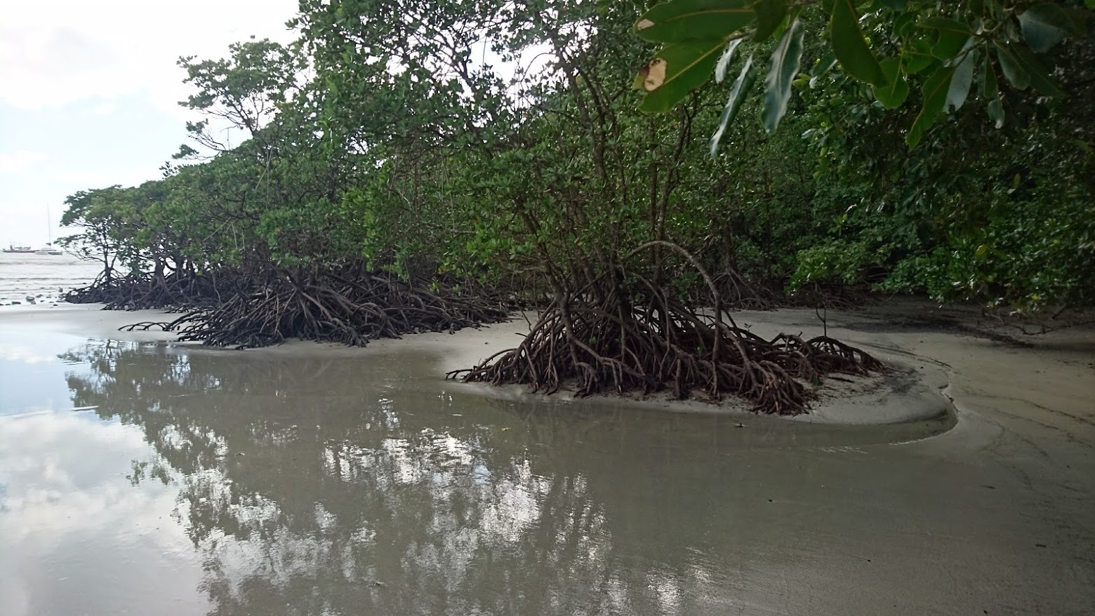 Mangroves growing on the beach